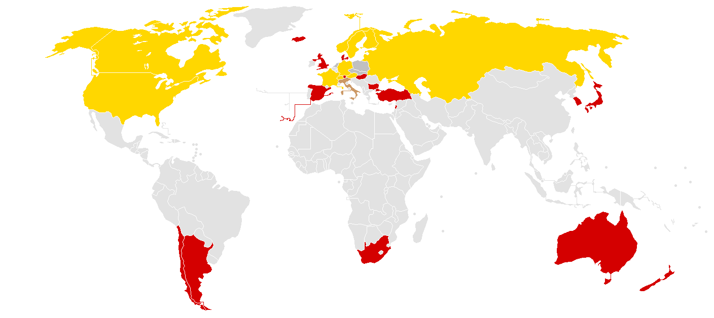 Countries with at least one gold medal Countries with at least one silver medal Countries with at least one bronze medal Countries that didn't get any medal Countries that did not participate